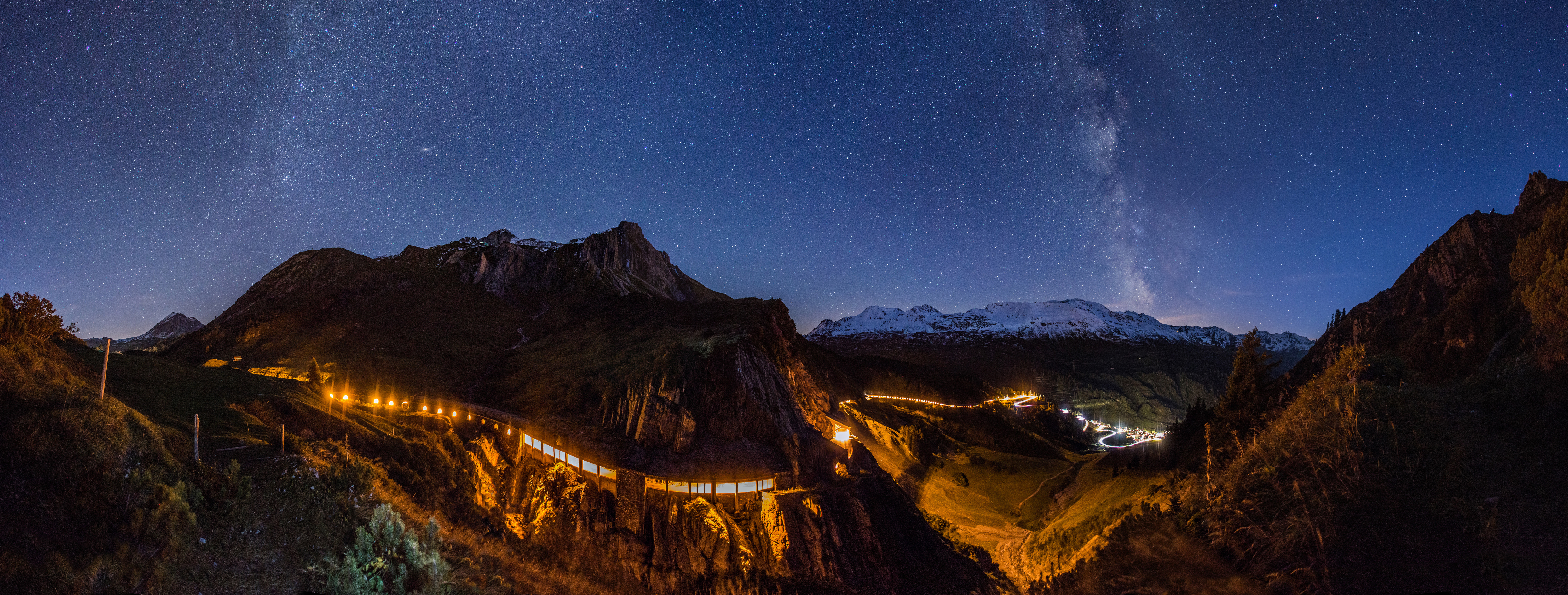 Panorama of the Flexen Pass Road overlooking the city of Stuben and the Arlberg range in Vorarlberg. the construction of the road begun on 3 August 1895 with the construction of the portion linking Stuben with Lech and Warth. The road was designed by the famous architect John Bertolini.